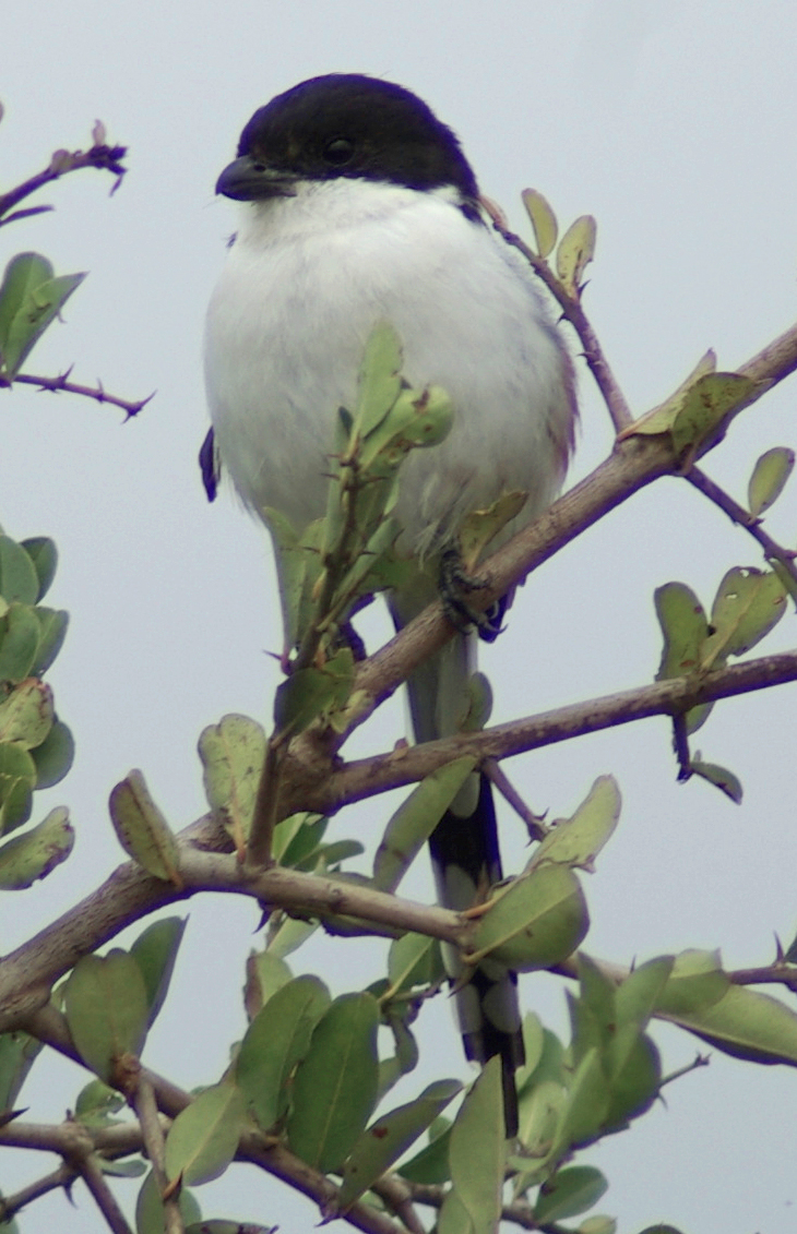 Adult male Northern Fiscal Lanius humeralis, not far from Nanyuki, Kenya. The time stamp is 10 hours too early.